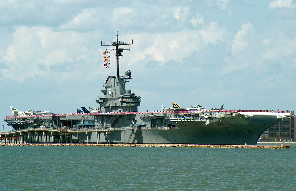 USS Lexington CV-16 Corpus Christi Aug 2005